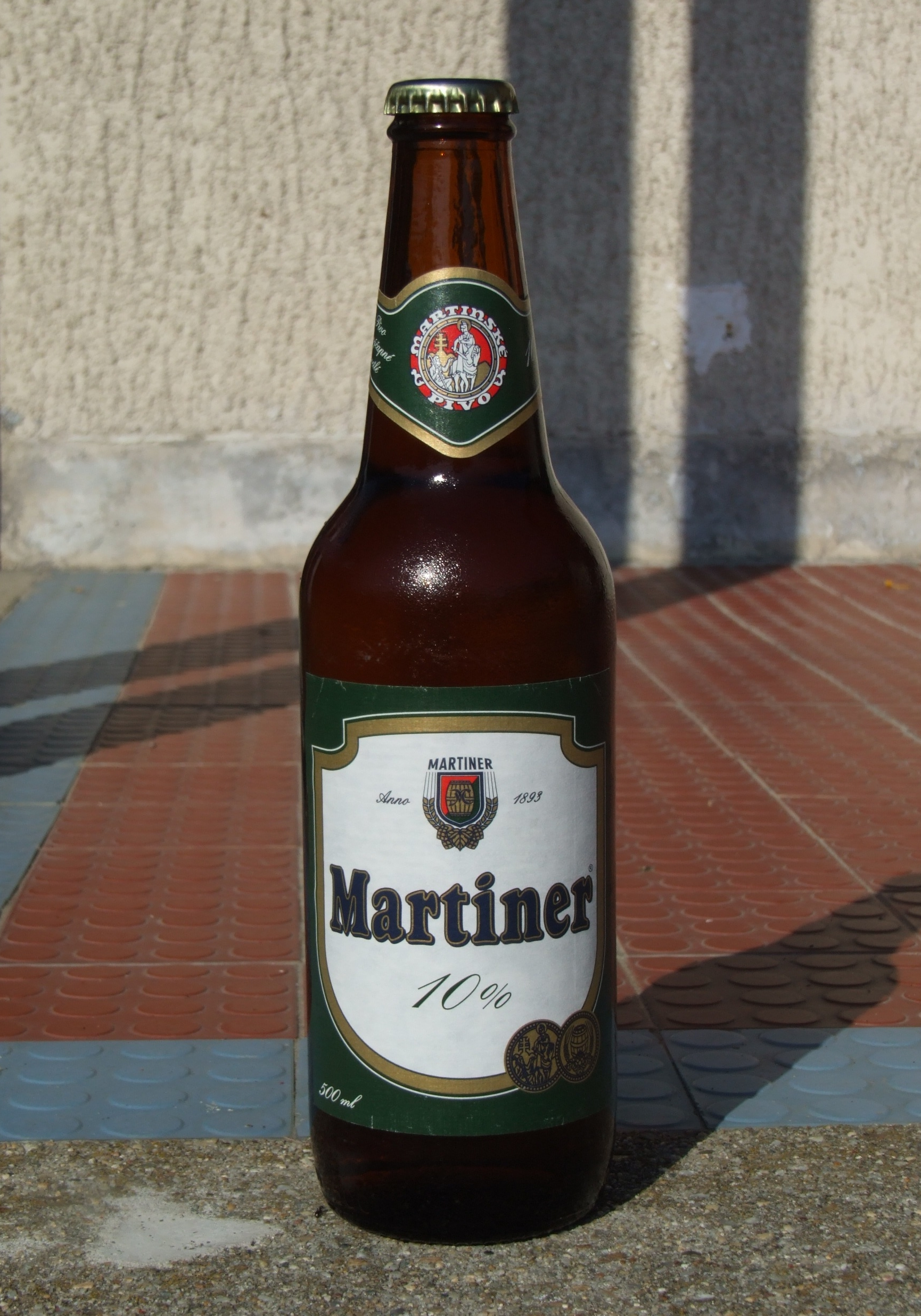 Martiner berr from Slovakia